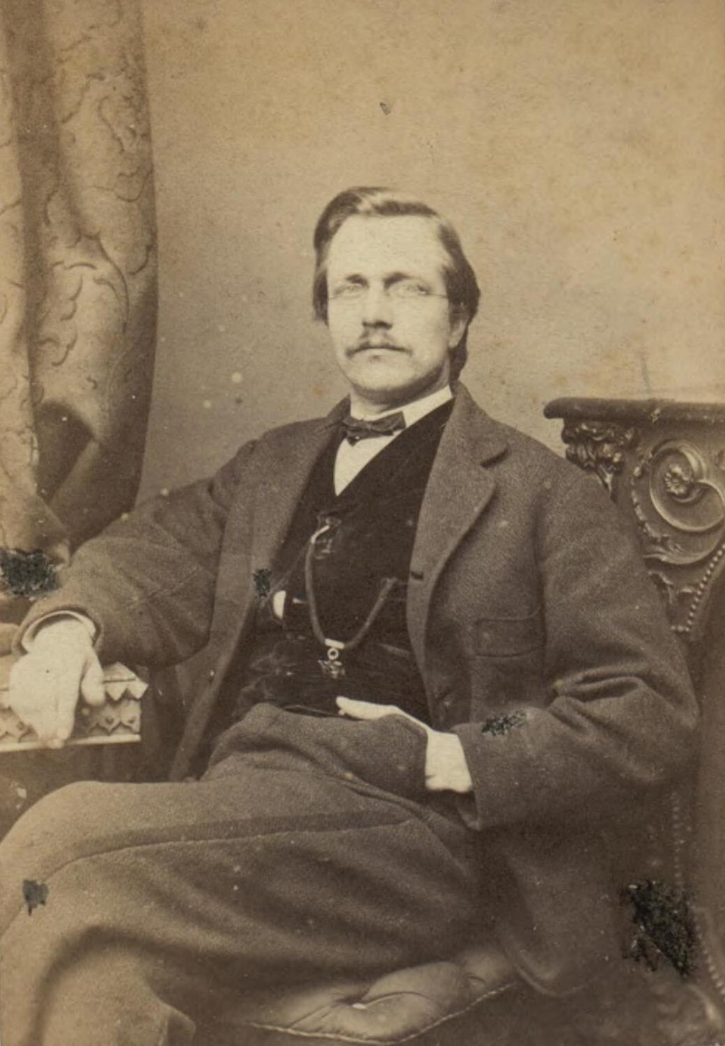 A portrait from the Welsh Portrait Collection at the National Library of Wales. Depicted person: Joseph Parry – Welsh composer